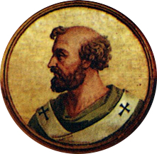 Papa Adriano III, o 110º papa. (c.835-885). Portrait of Pope Adrian III in the Basilica of Saint Paul outside the Walls, Rome